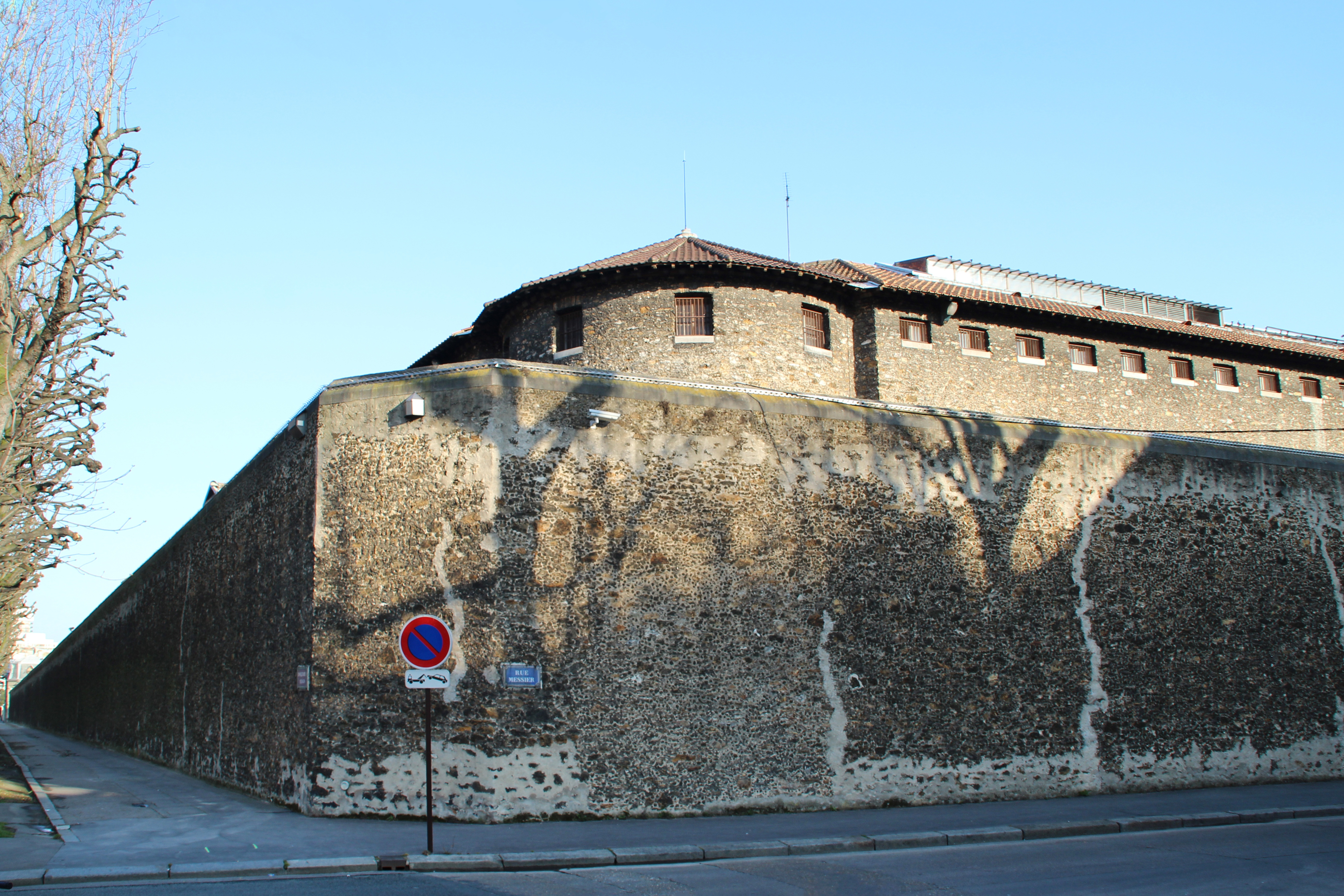 Northwest corner of La Santé Prison in Paris, France